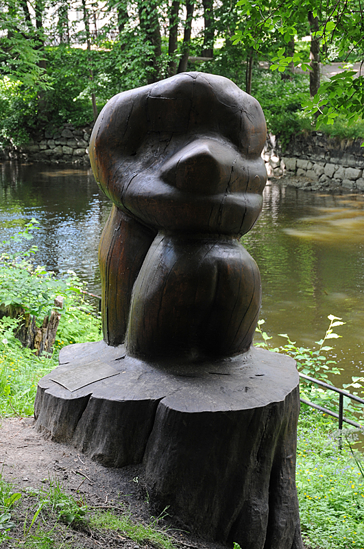 Ask o Embla. Sculpture in wood made ​​by Alexis Oyola, Morgan, Eric and Jon Brint